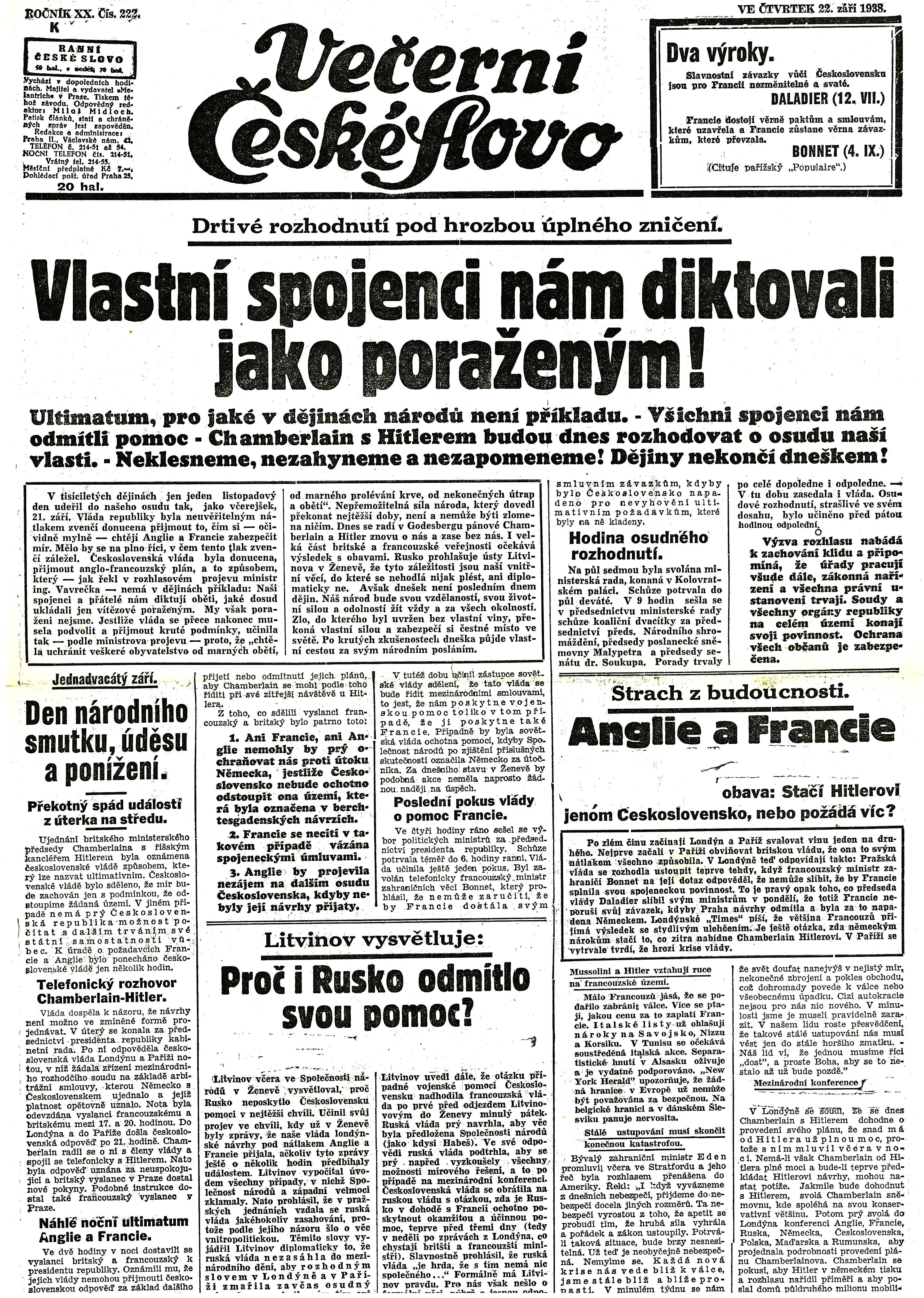 Front page of the Czechoslovak newspaper Večerní České Slovo on 22 September 1938, on the eve of conclusion of the Munich Agreement.